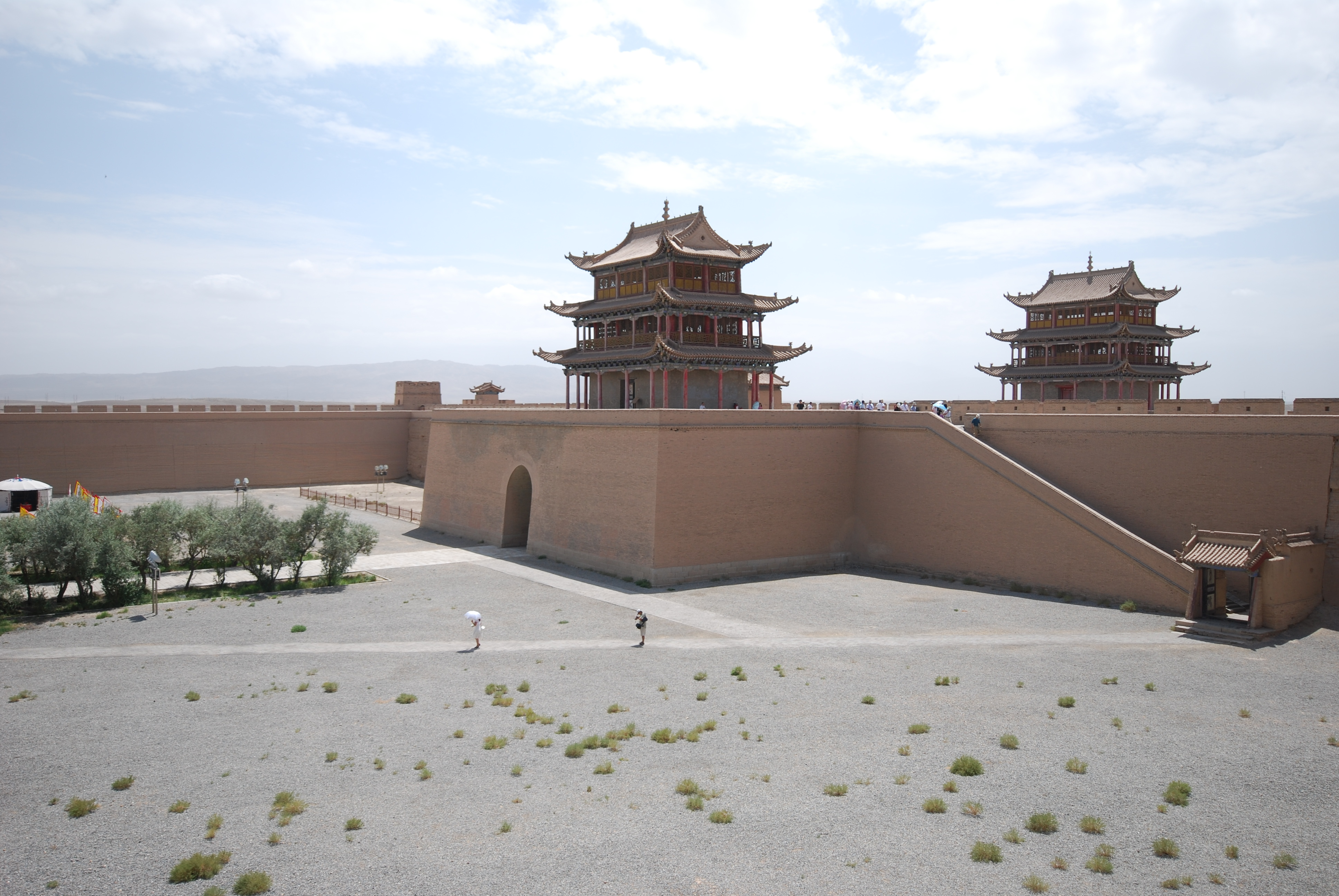 Gatetowers of Jiayuguan, 2008